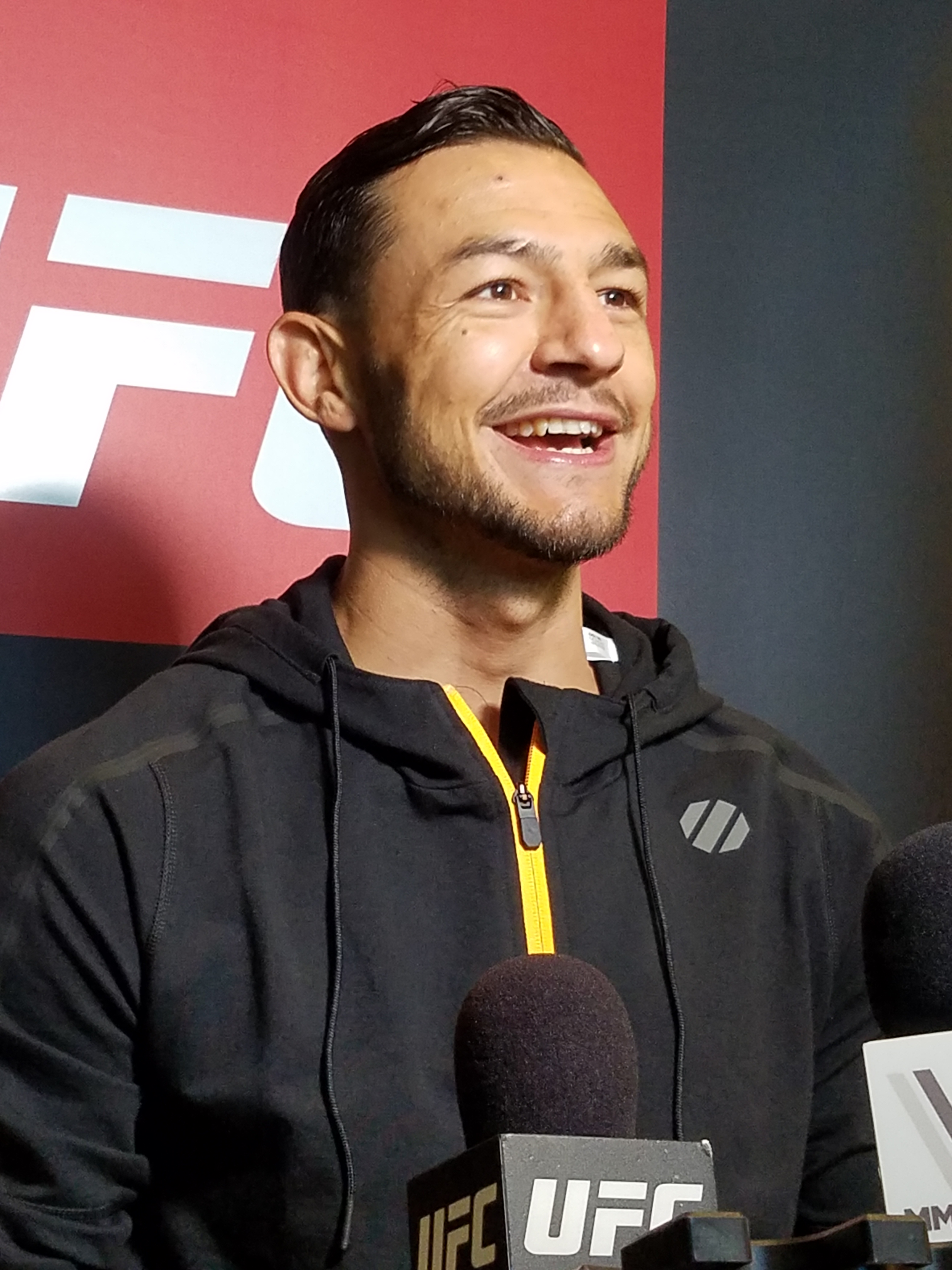 Professional MMA fighter Cub Swanson